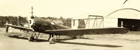 Catalog #: 00071193 Manufacturer: Spartan Designation: C2